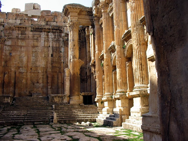 Baalbek.